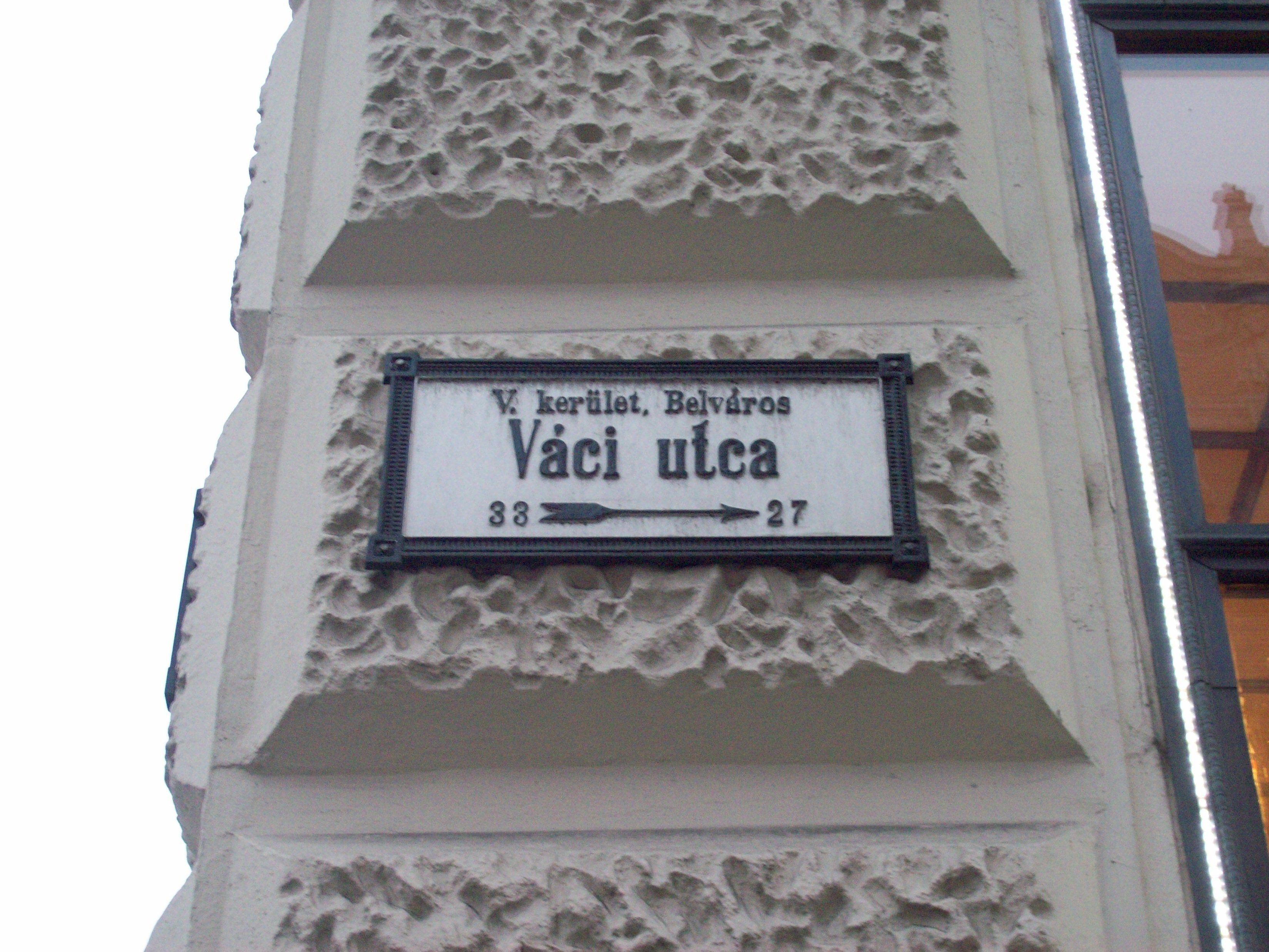 Vaci utca street sign-Budapest